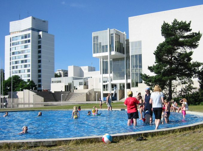 Tapiola centre in Espoo during the summer 2001. Espoo Cultural Centre on the background.